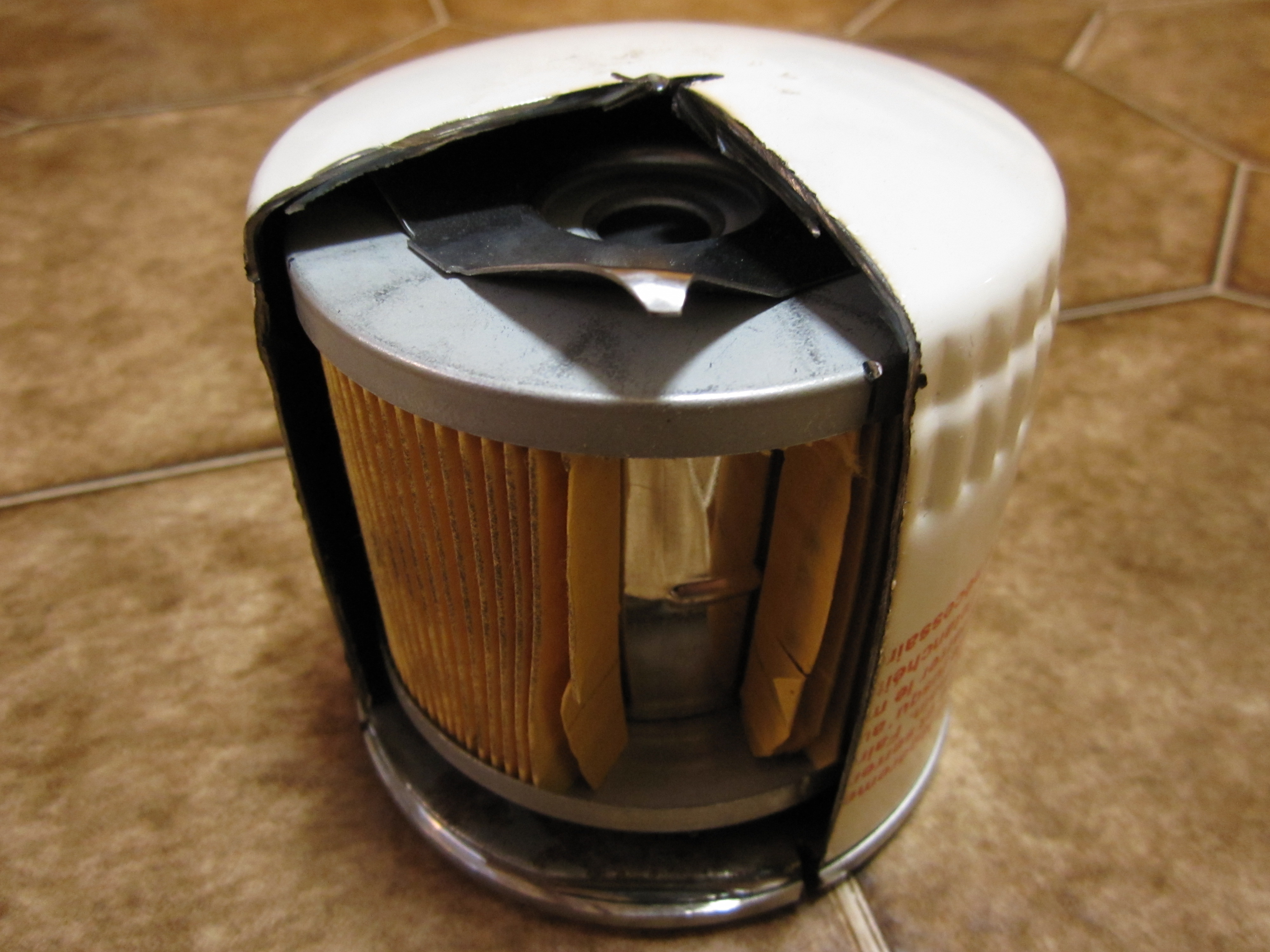 Motor oil filter cutaway image (Bosch P3029) - one quarter is cutted away from filter casing. Oil enters the paper from the outside of paper and leaves from the centre of filter cartridge. Some of the filter paper is also removed, so the paper support frame is visible. There are two rows of (4 mm diameter) oil flow holes in the high end of the frame (not visible). At the top of filter cartridge is oil bypass-valve.